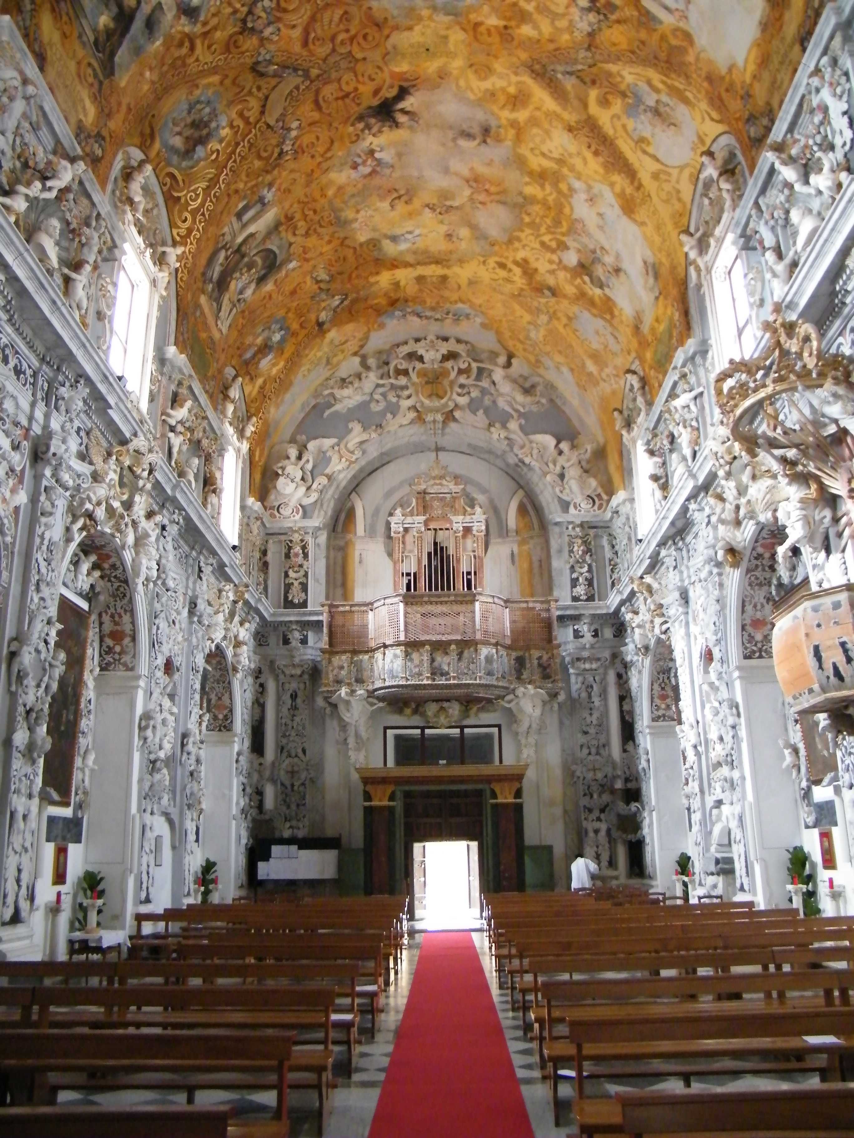 Saint Francis interior - south view - in Mazara del Vallo